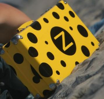 Yellow box - a special attribute, that you can buy at KaZantip